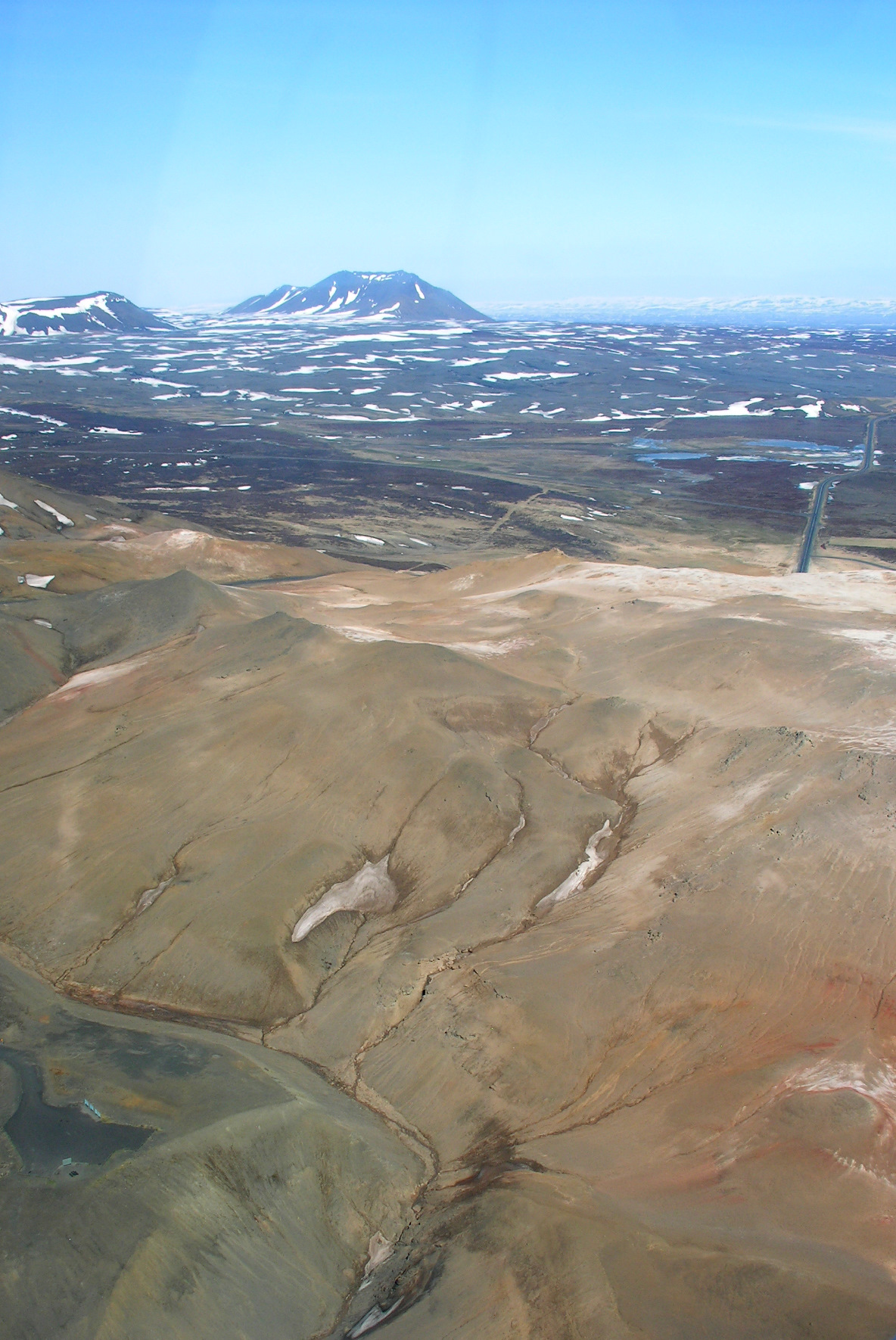 Aerial View of Námafjall and Jörundur